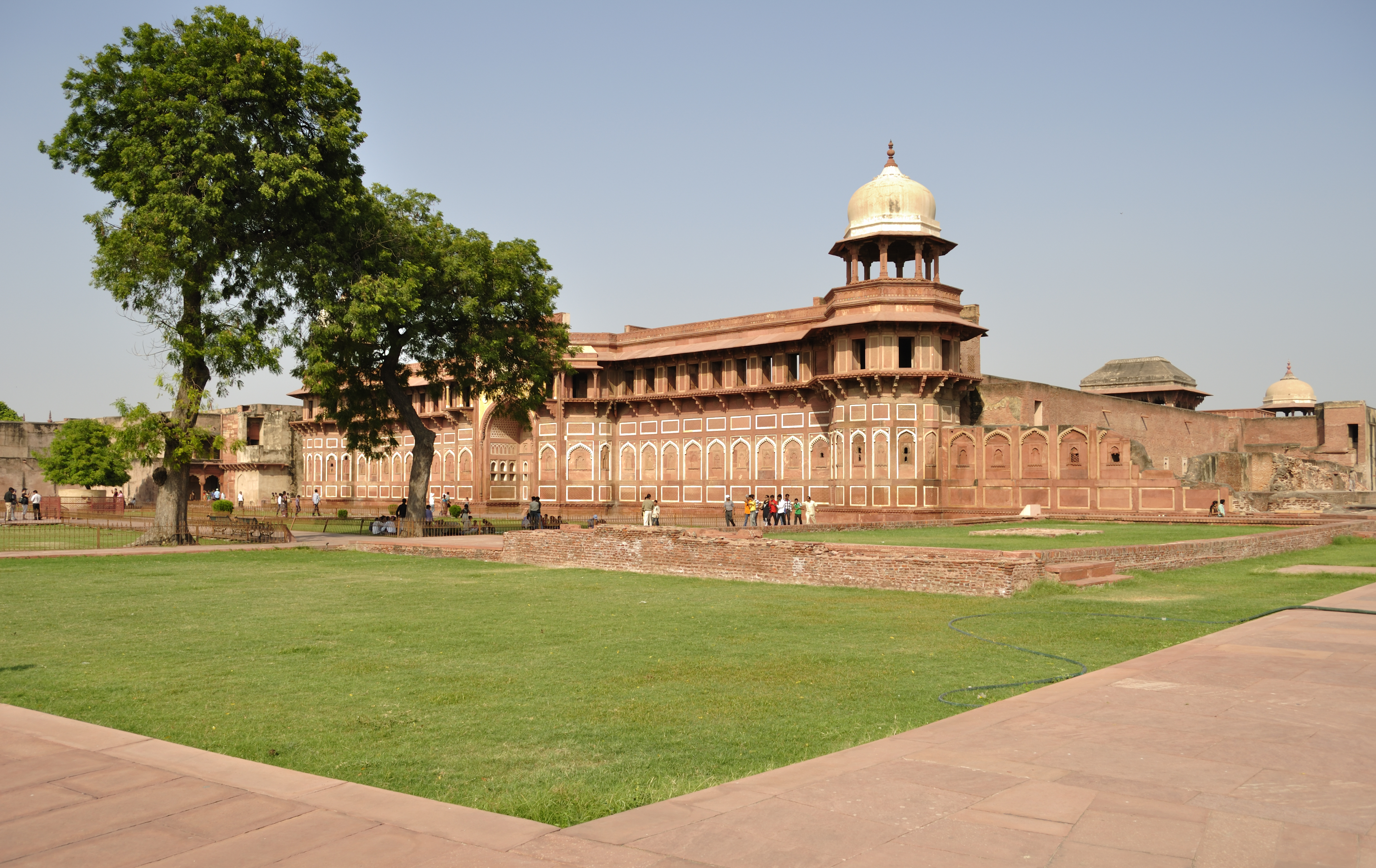 View of Jahangiri Mahal, situated inside the Agra Fort in Agra, Uttar Pradesh, India. The building is made up of red sandstones.